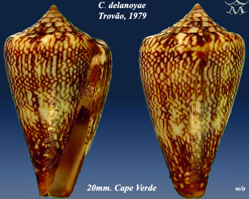 Conus delanoyae4